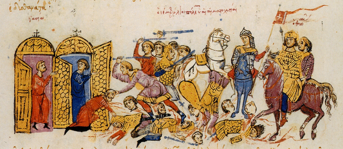 Skylitzes Matritensis, fol. 30v, detail. Capture of a city in Asia Minor by the rebel Thomas the Slav